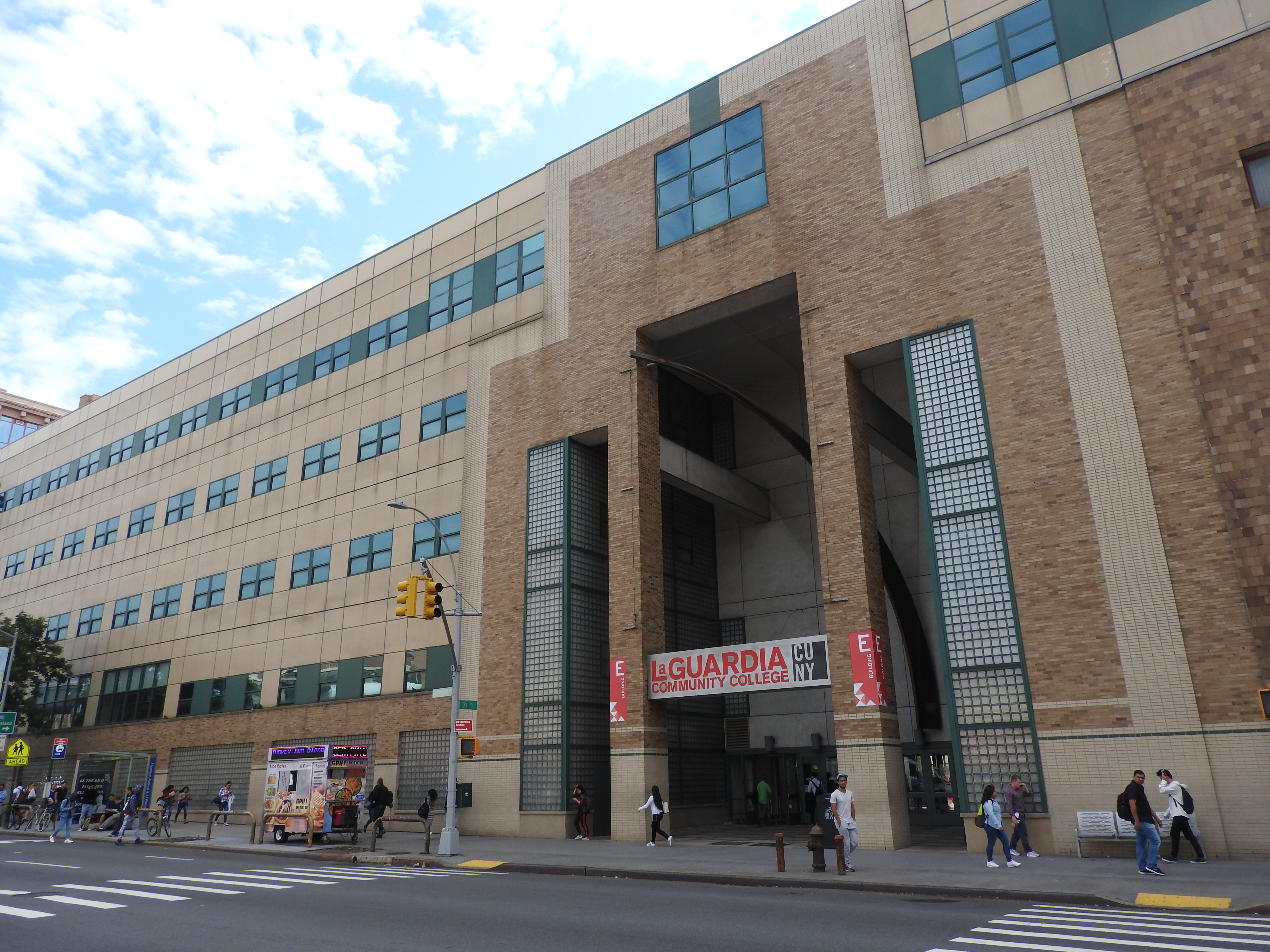 Looking southeast across the avenue at building on a mostly sunny midday.